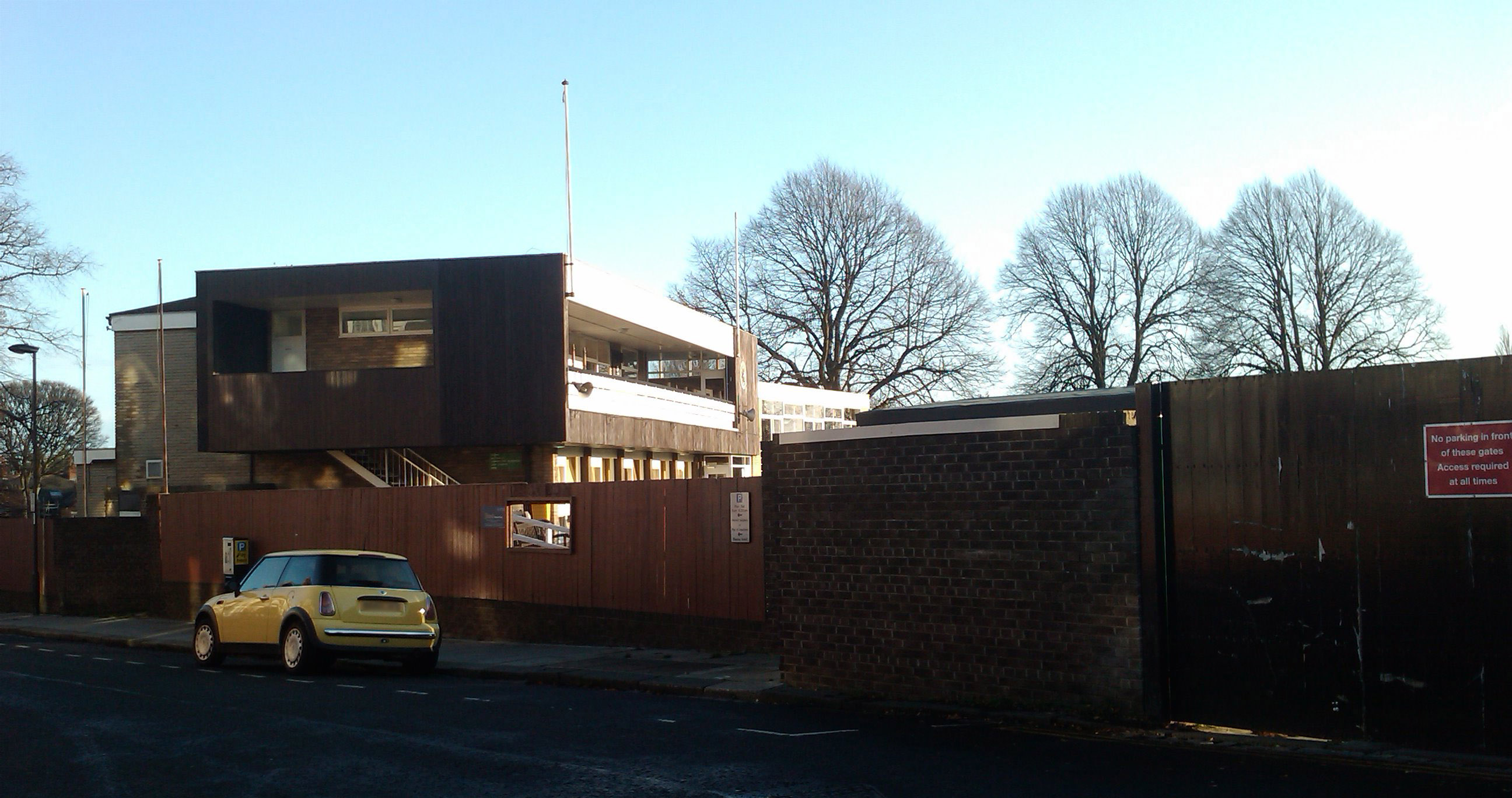 The view from the street outside of Osborne Avenue Cricket Ground, Jesmond, Newcastle upon Tyne, UK